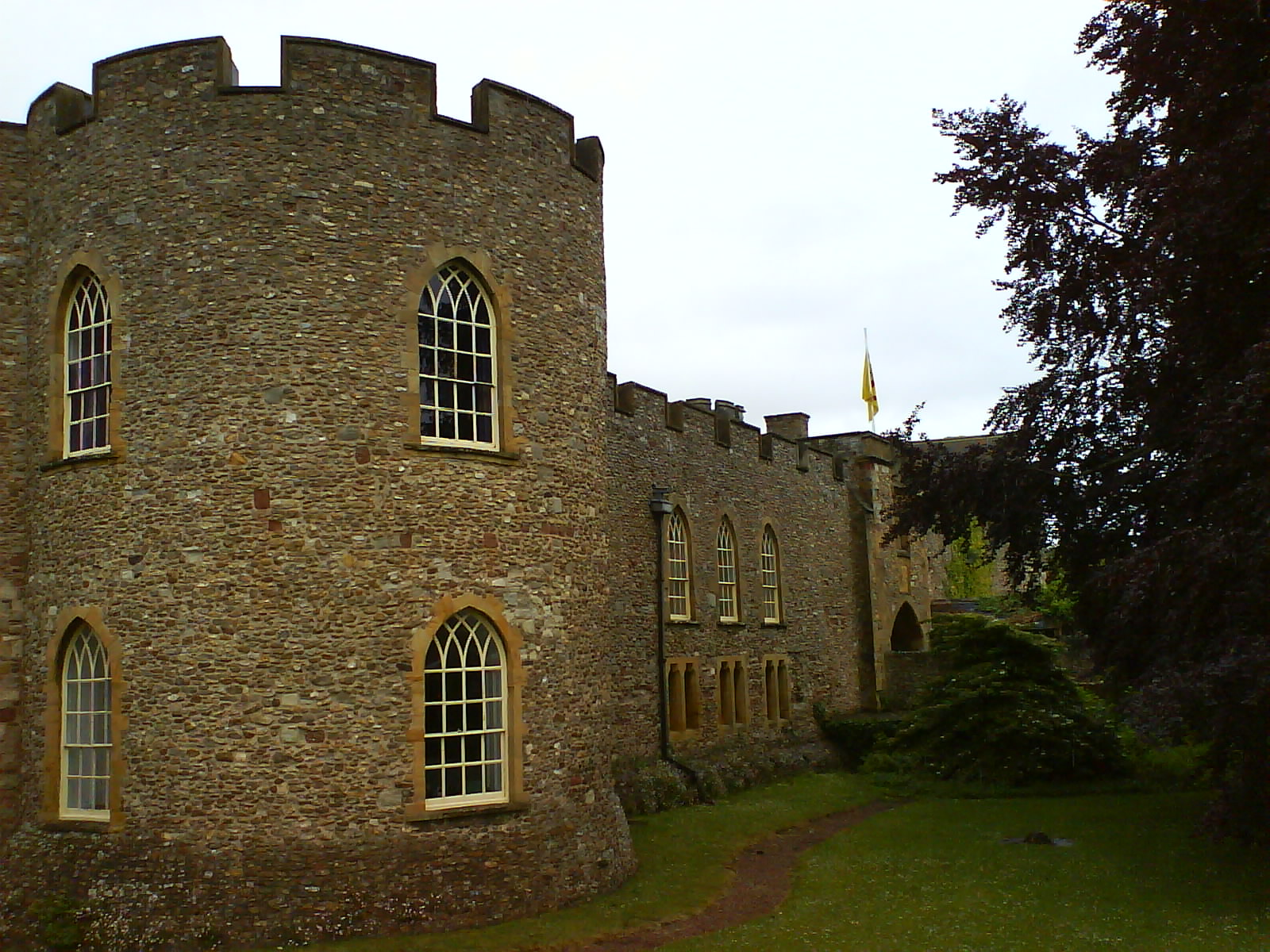 Taunton Castle, Somerset, England